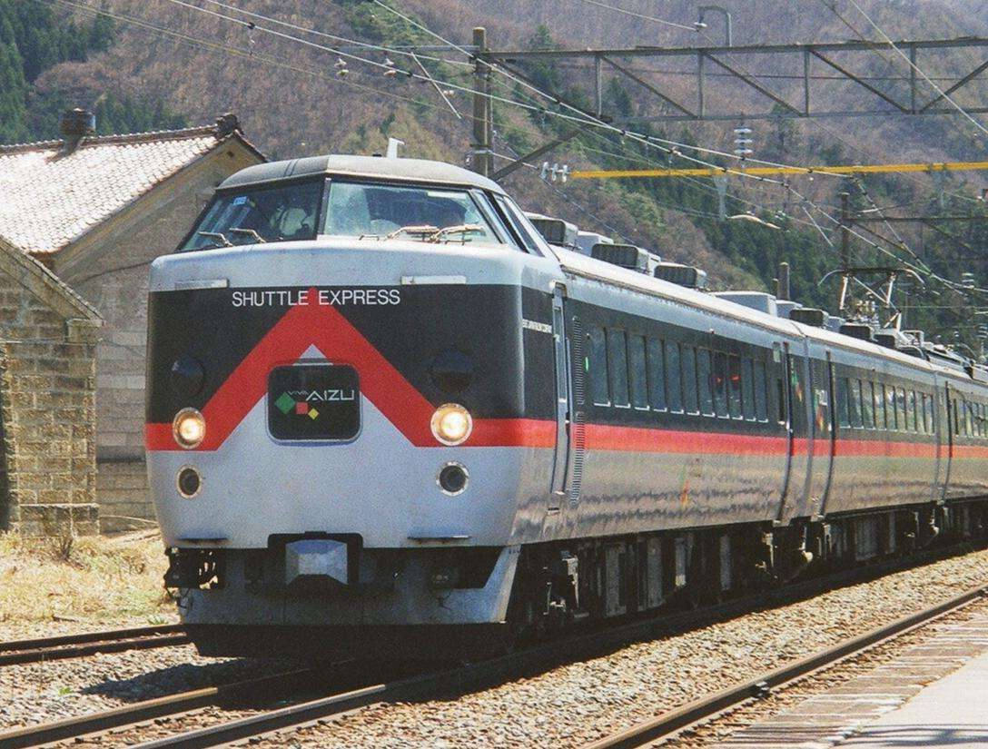 JR East 485 series EMU approaching Kawageta Station on the Banetsu West Line on a Viva Aizu limited express service